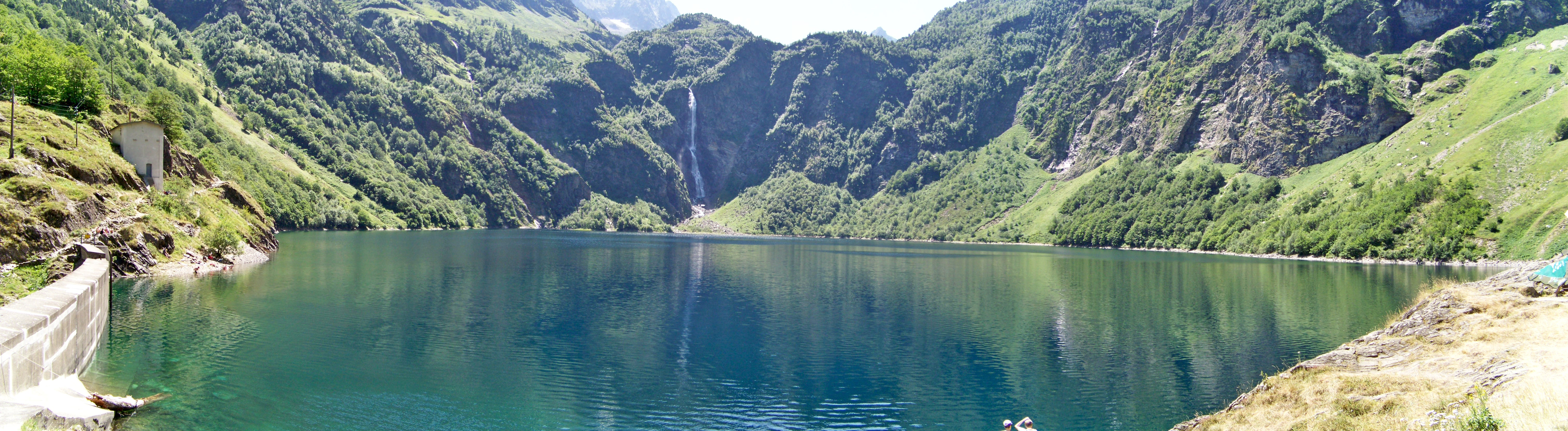 Panorama view of the "Lac d'Ôo" (Ôo Lake) in the French "Pyrénées" mountains.